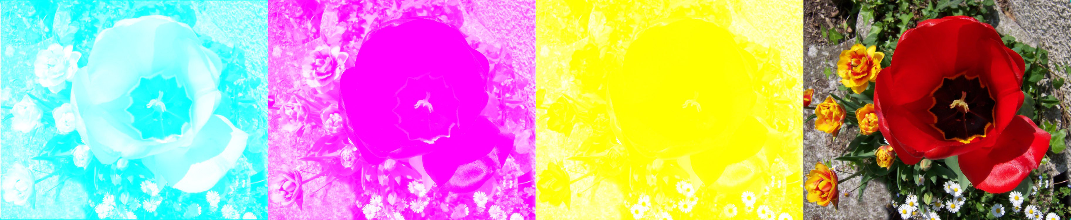 Three dyes cyan, magenta and yellow, such as those used in photography, produce, via subtractive synthesis, a full-color image.